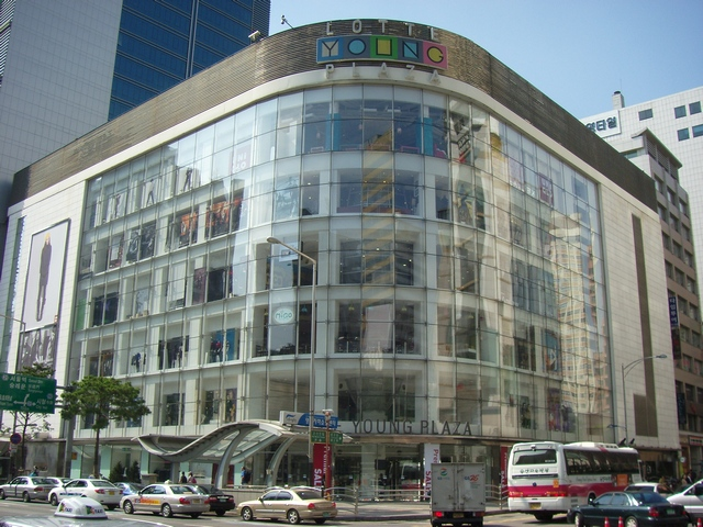 Lotte Young Plaza